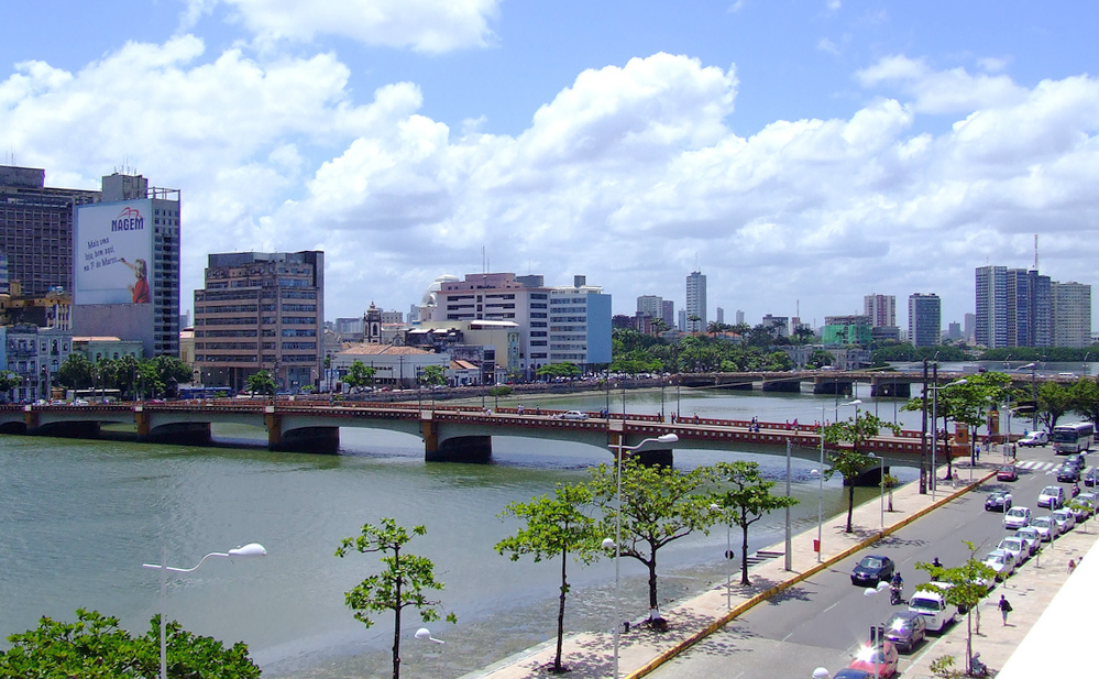 Maurício de Nassau bridge in Recife, Brazil